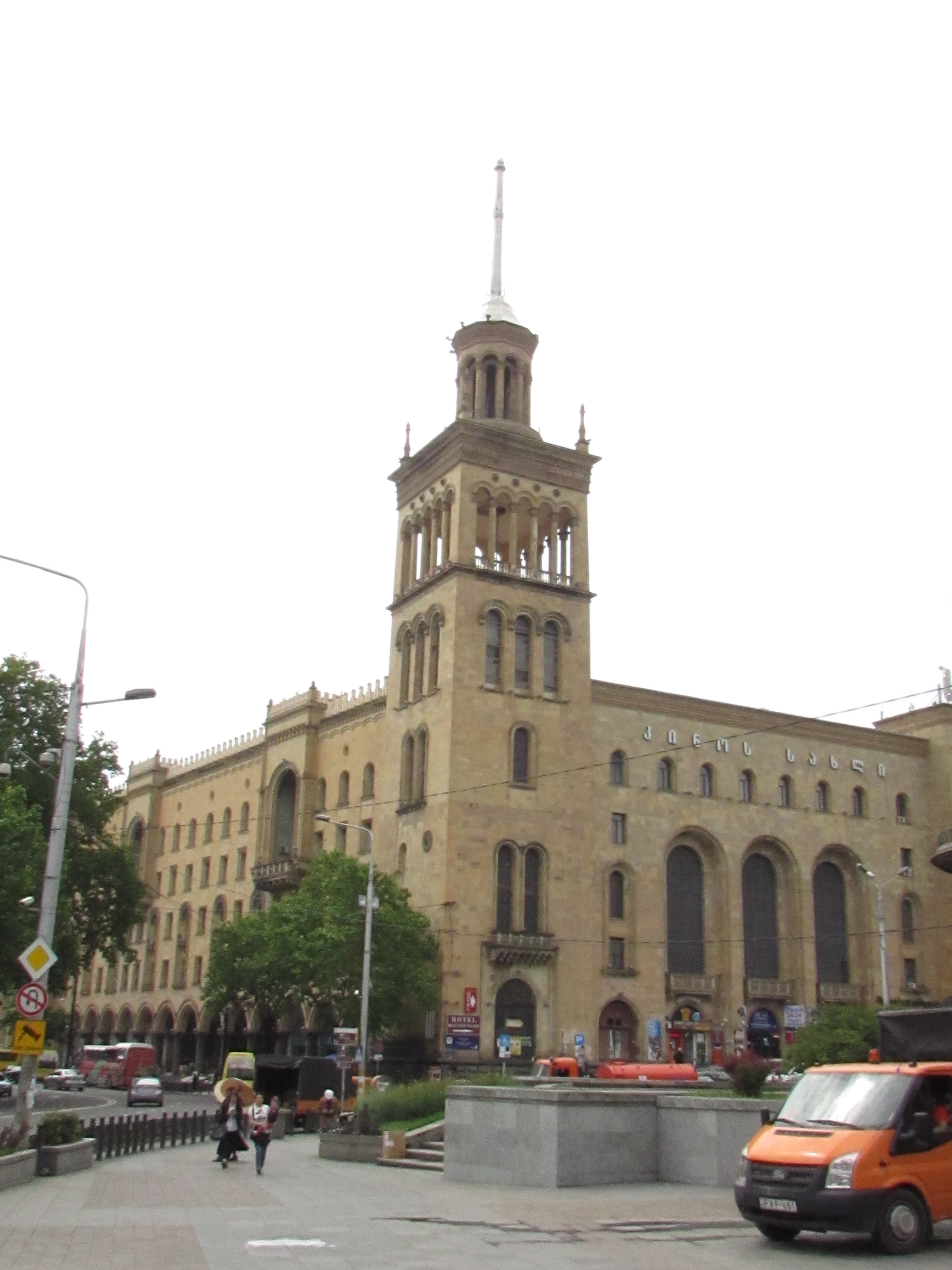 Gruzugol building tower, Tbilisi, built in 1953